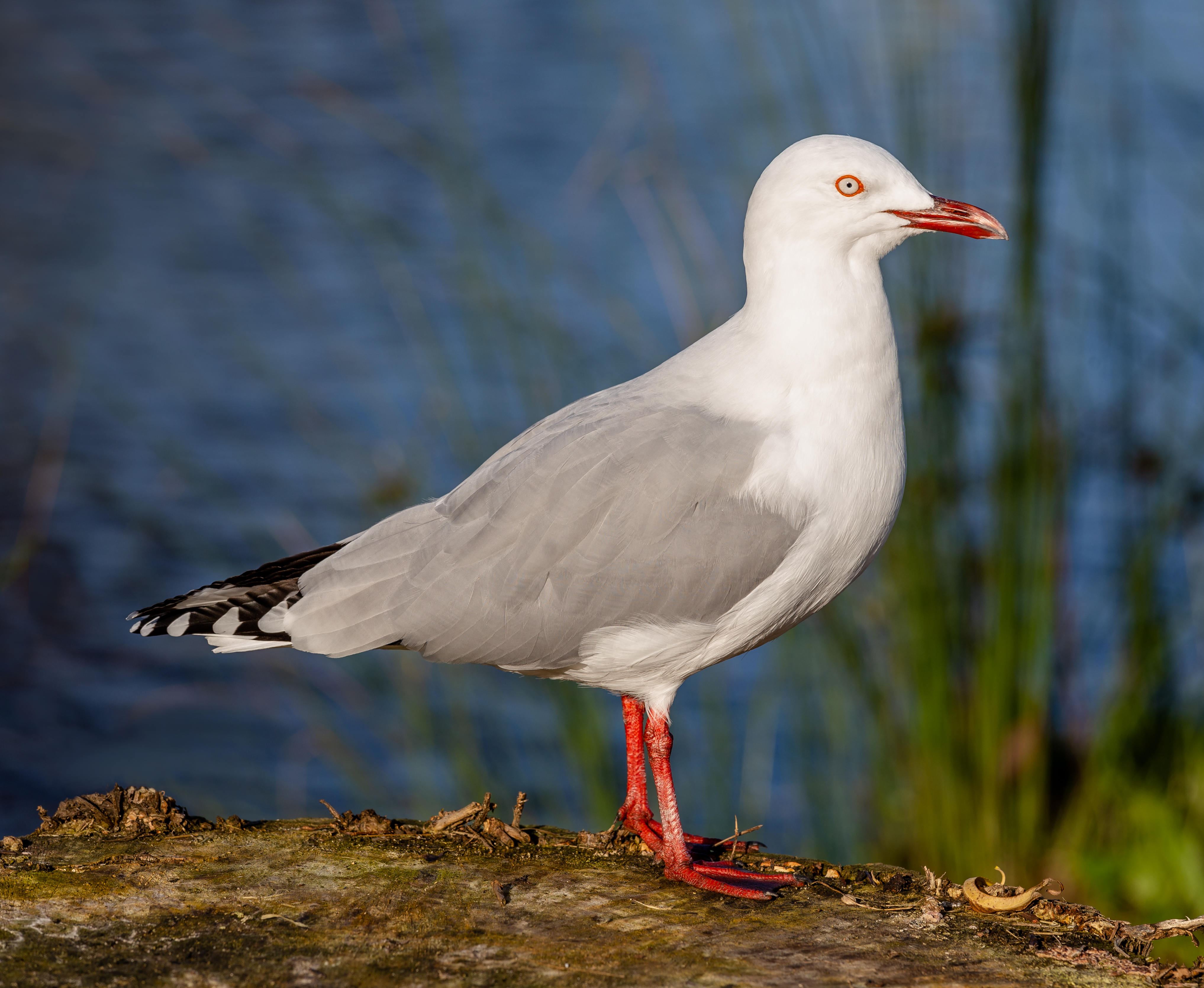 Red-billed gull (Chroicocephalus novaehollandiae scopulinus), Red Zone, Christchurch, New Zealand